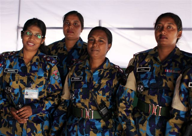 DRC Kinshasa 2012-03-05-Oppening Ceremony for the International Women Day tacking place at the Ministery of Gender